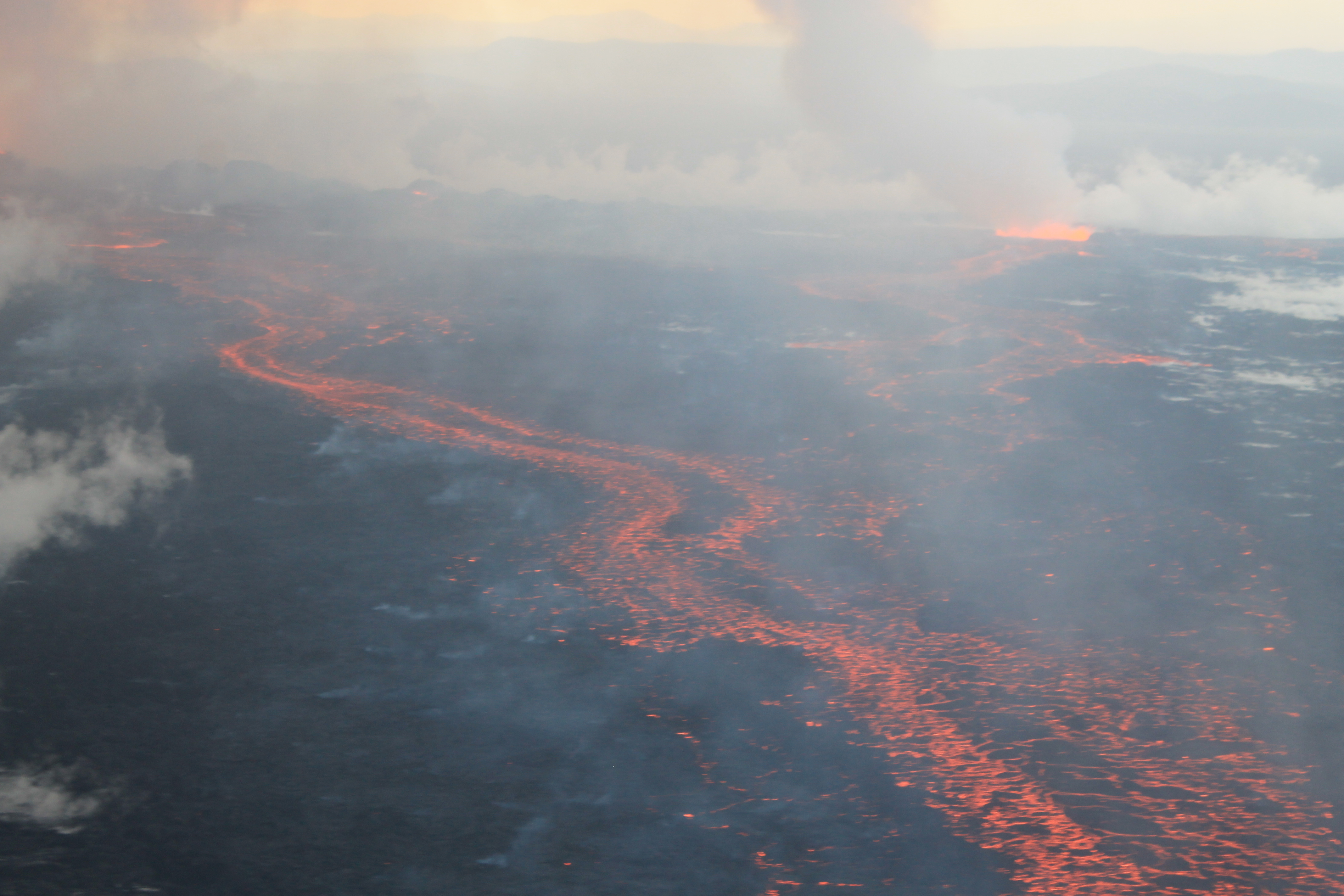 Pictures taken by Peter Hartree between 14.30 and 15.00 on September 4th 2014. I'm sorry for the less than ideal quality of these - this wasn't a professional photo shoot. All photos are unedited. I have a bunch more (fairly similar) shots - if you'd like to see them, write to . Many thanks to pilot Siggi G for the ride.